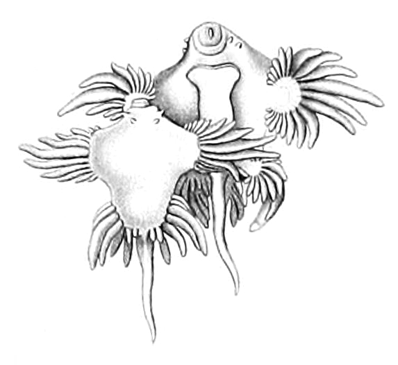 Glaucus atlanticus mating